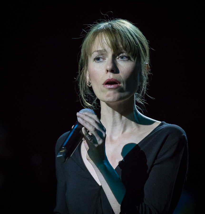 Heidi Skjerve of Trondheim Voices at Sølvsalen. The concert was part of Kongsberg Jazzfestival and took place on 06. July 2017. Lineup: Sissel Vera Pettersen (vocal) Tone Åse (vocal) Heidi Skjerve (vocal) Silje Ræstad Karlsen (vocal) Anita Kaasbøll (vocal) Torunn Sævik (vocal) Mia Marlen Berg (vocal) Live Maria Roggen (vocal)